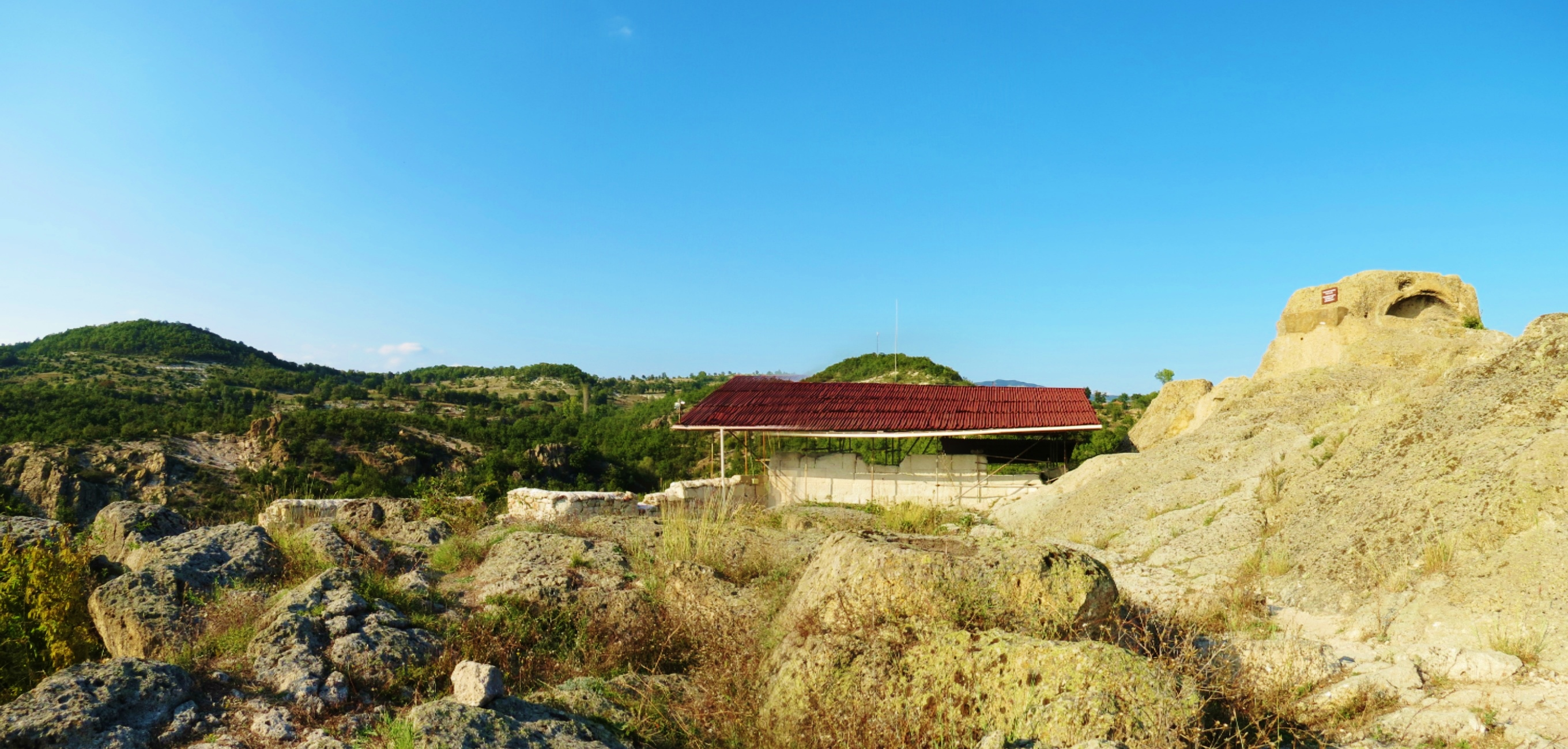 Panorama Tatul sanctuary Bulgaria